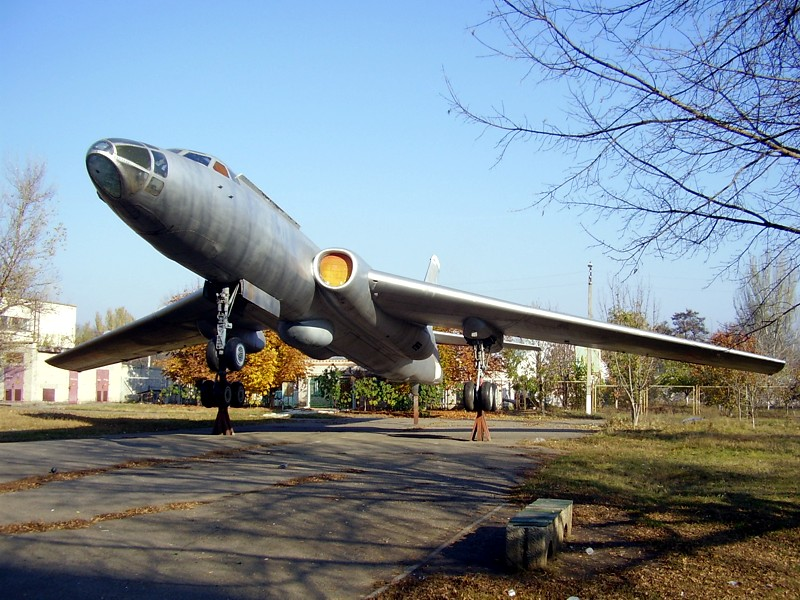 Tu-16 at former airbase Kulbakino